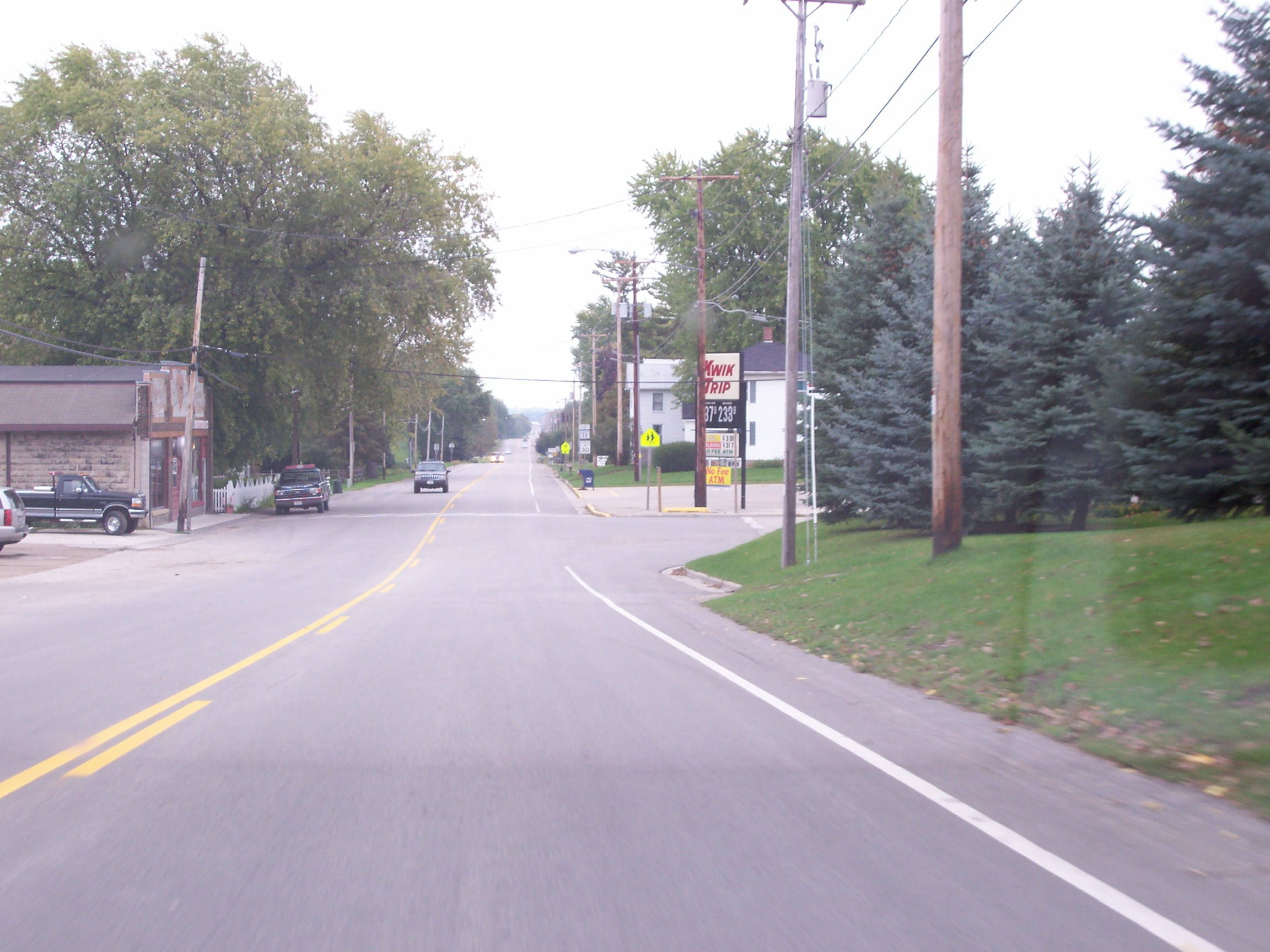 Looking east at downtown Winchester, Wisconsin on County Trunk II (formerly Highway 150 (Wisconsin). This image was taken September 23, 2006 by User:Royalbroil Category:Images of Wisconsin highways